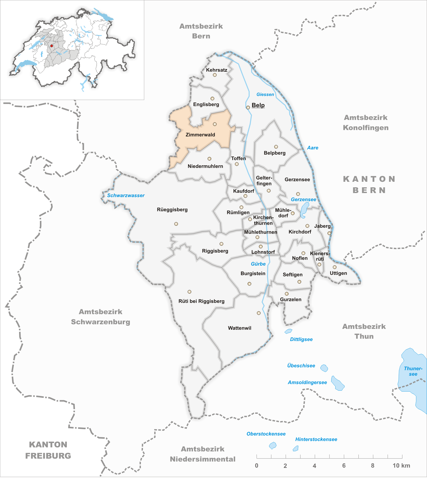 Municipality Zimmerwald